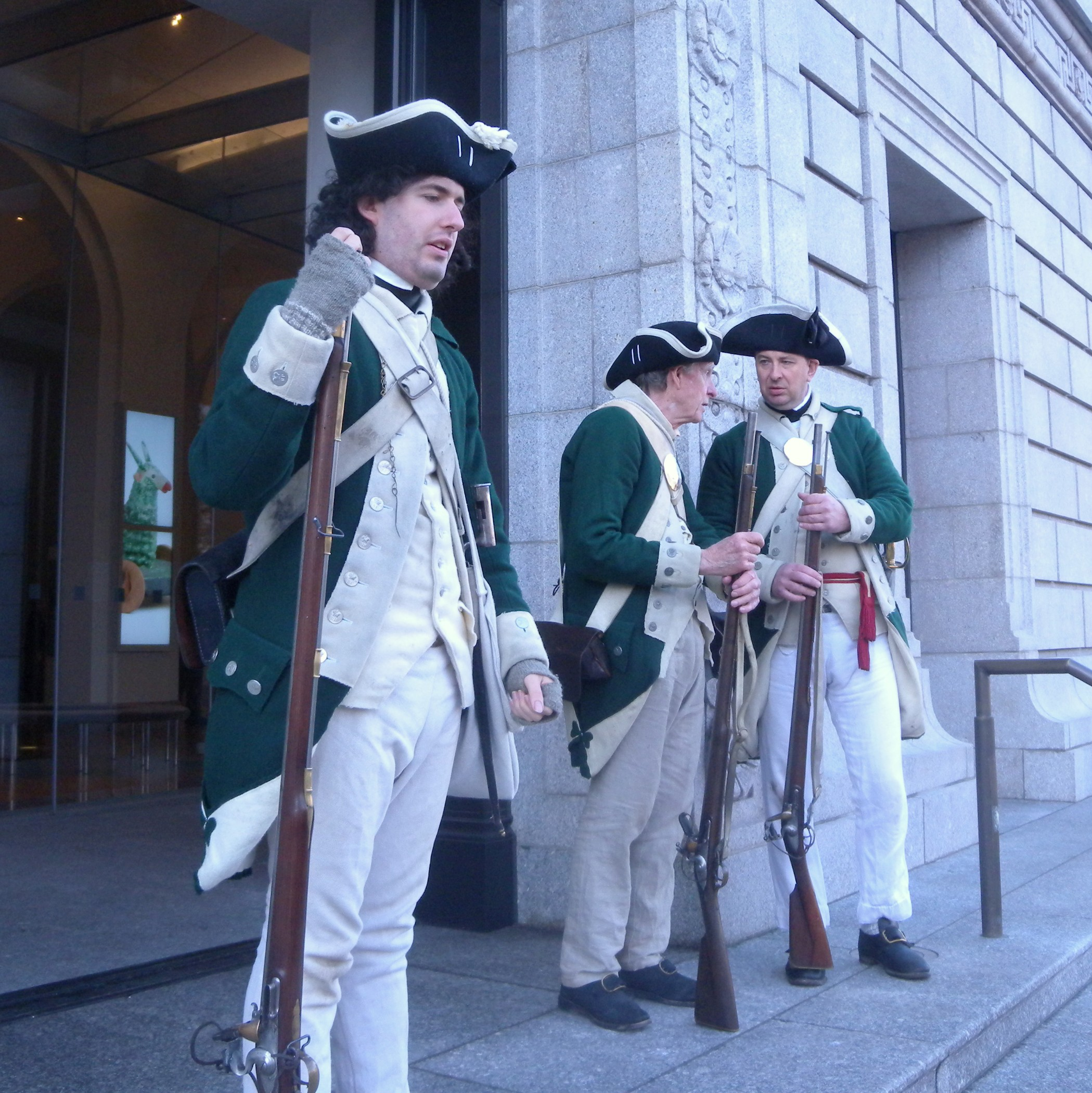 Looking north at Loyalist troops guarding New-York Historical Society.